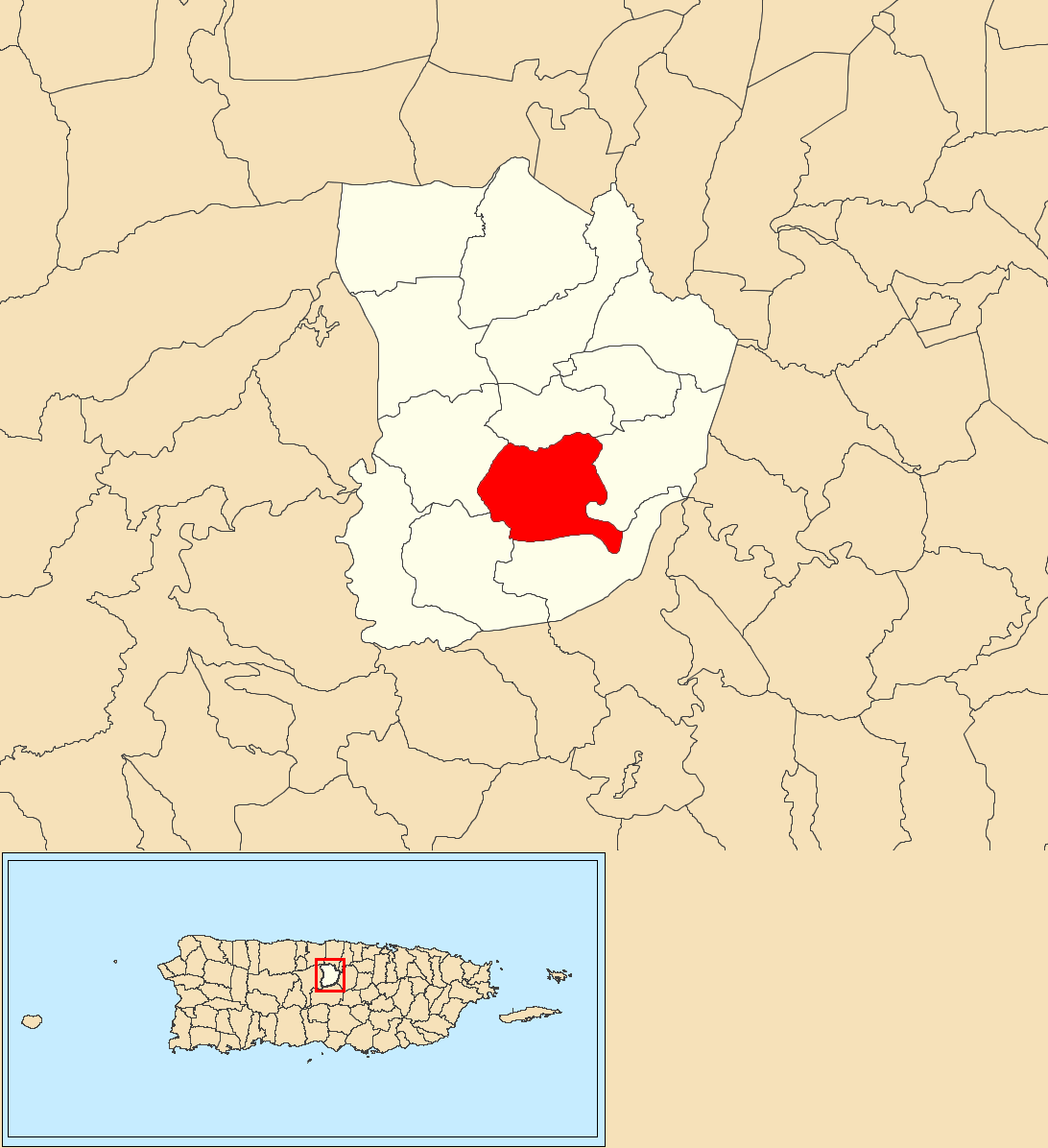 Río Grande, Morovis, Puerto Rico locator map